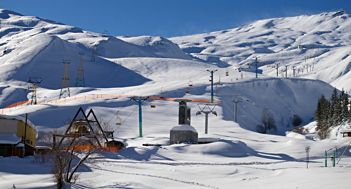 Dizin skiing slopes, Tehran, Iran